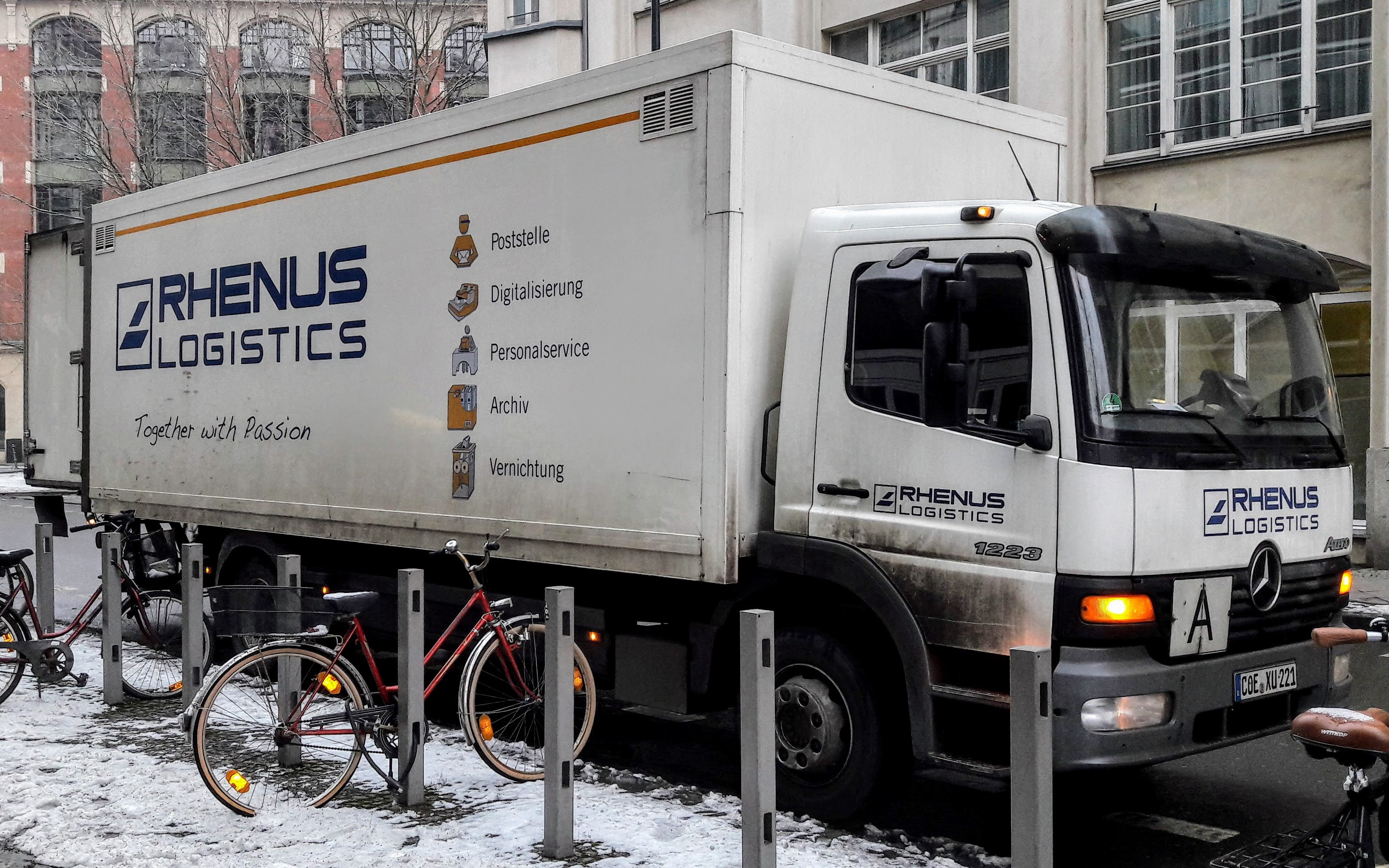 Rhenus truck in Berlin